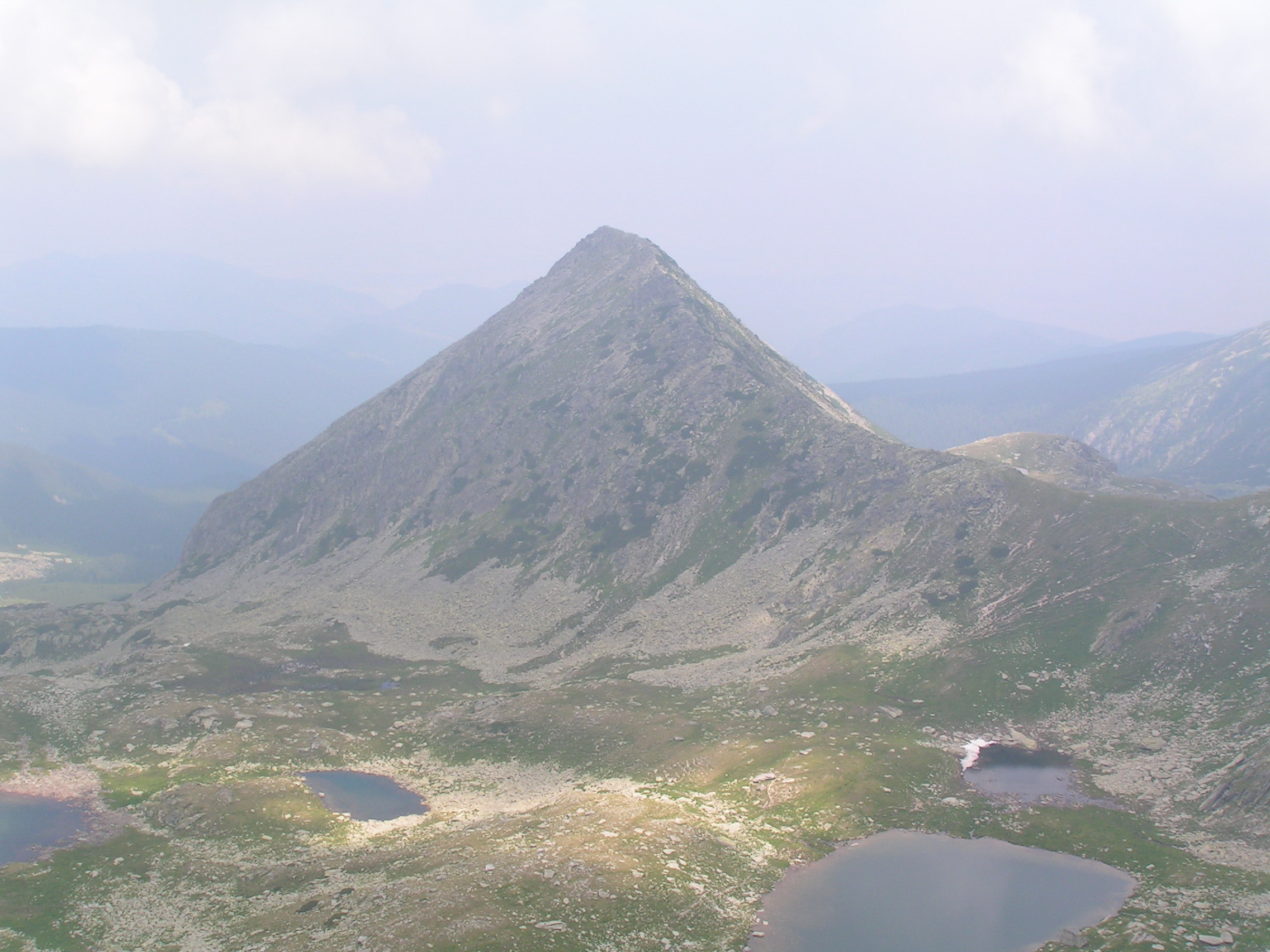 Peak Papusa, Retezat, Romania